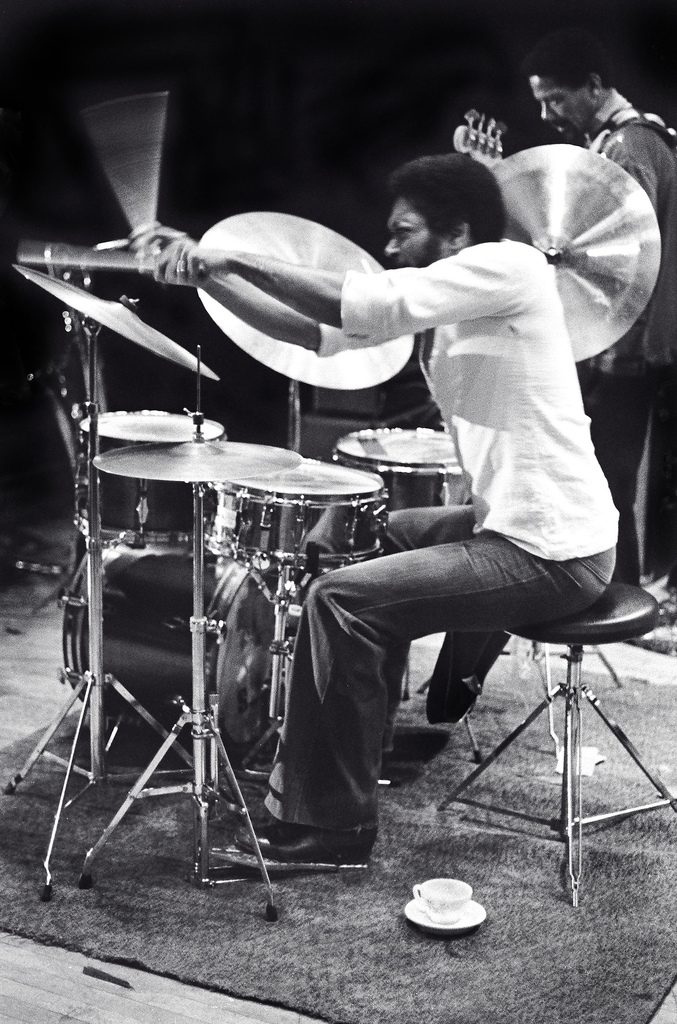 Billy Hart & Steve Davis Rochester, NY 1978